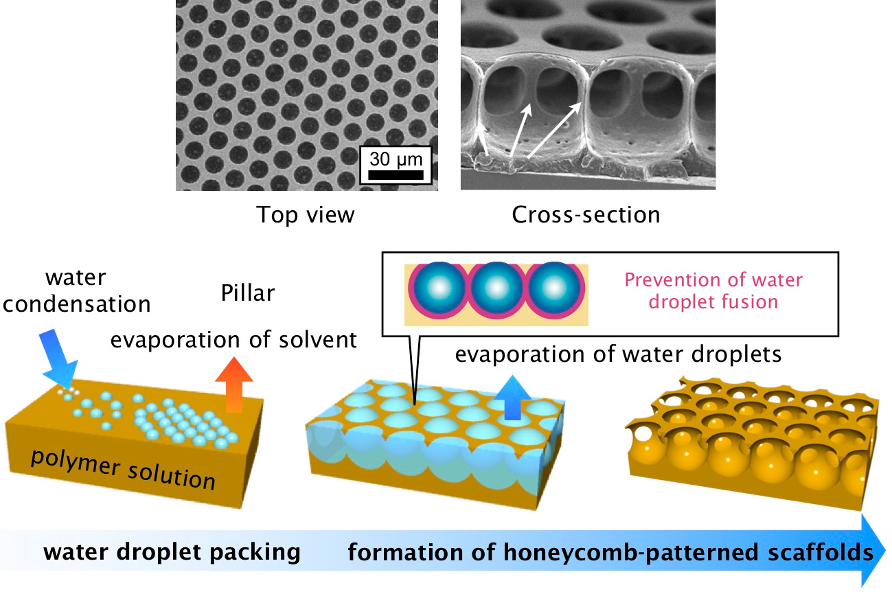 Schematic illustration of honeycomb film formation via the breath figure technique, and scanning electron microscopy (SEM) and cross-sectional SEM images of polystyrene honeycomb films.